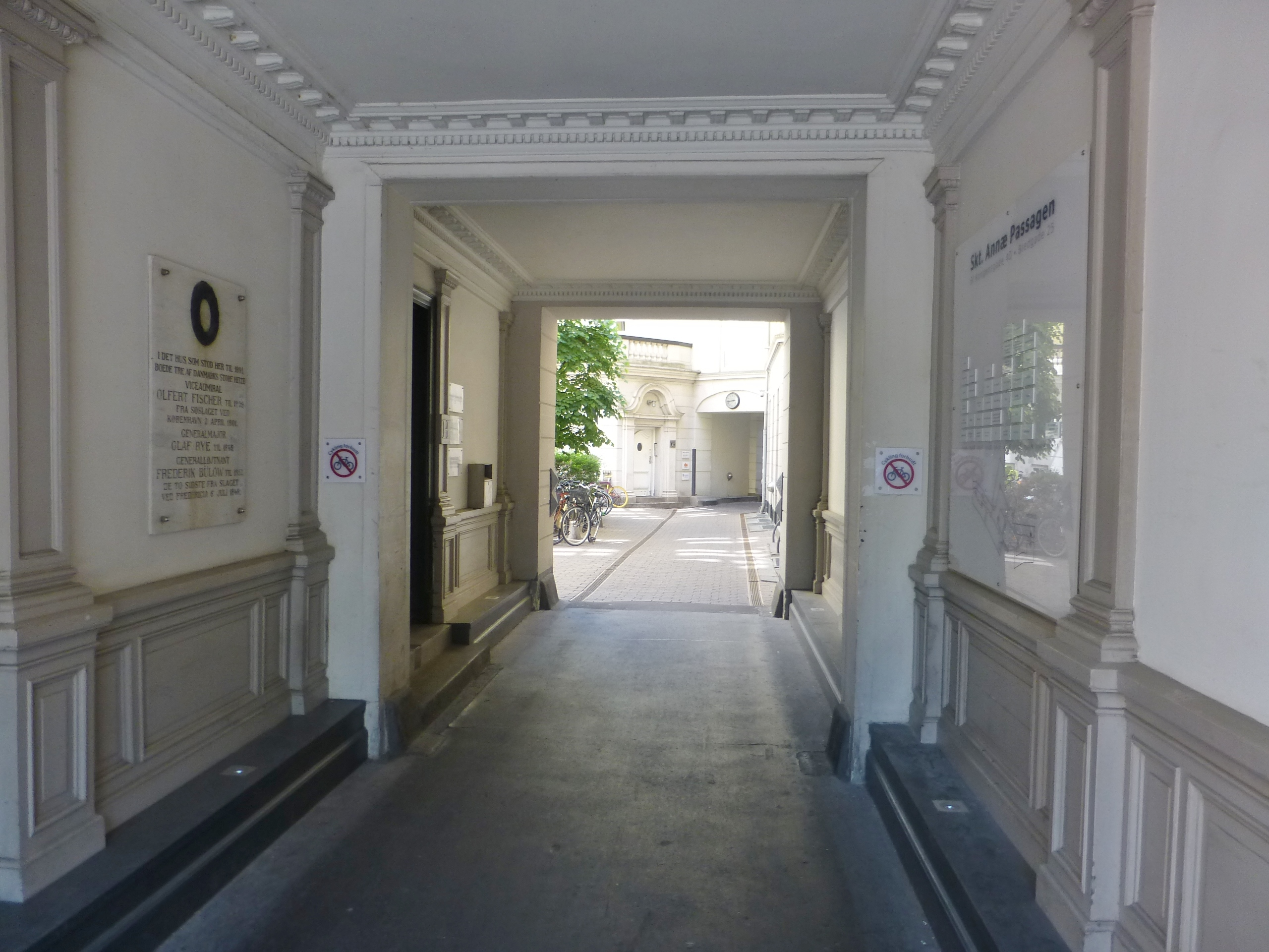 The passageway Sankt Annæ Passage in Indre By, Copenhagen.